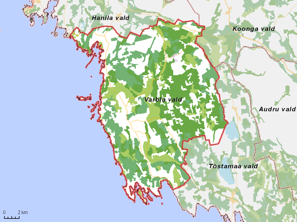 Map of municipality in Estonia